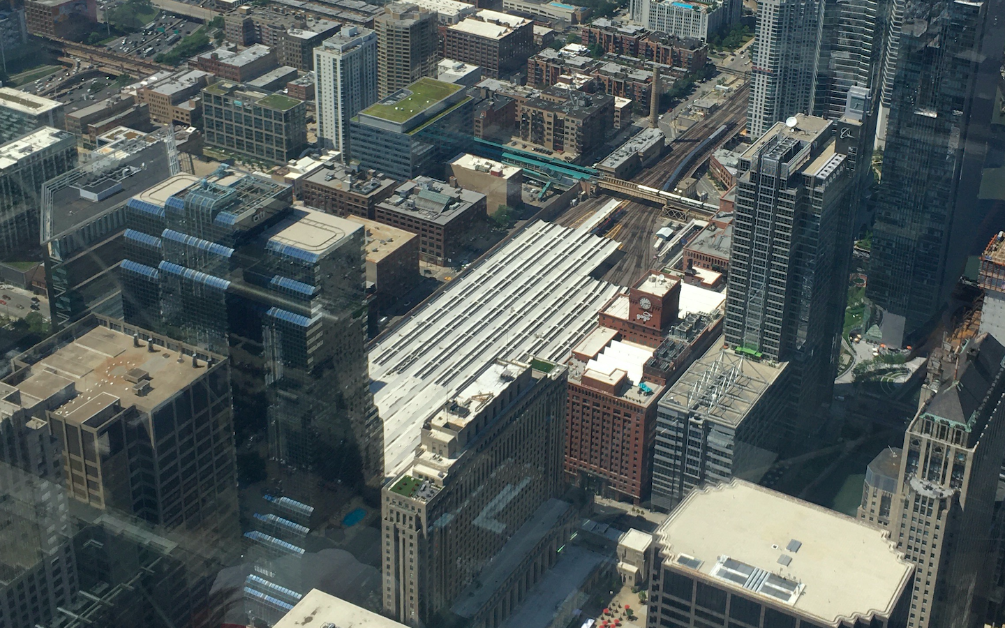 Ogilvie station from the Willis (Sears) Tower